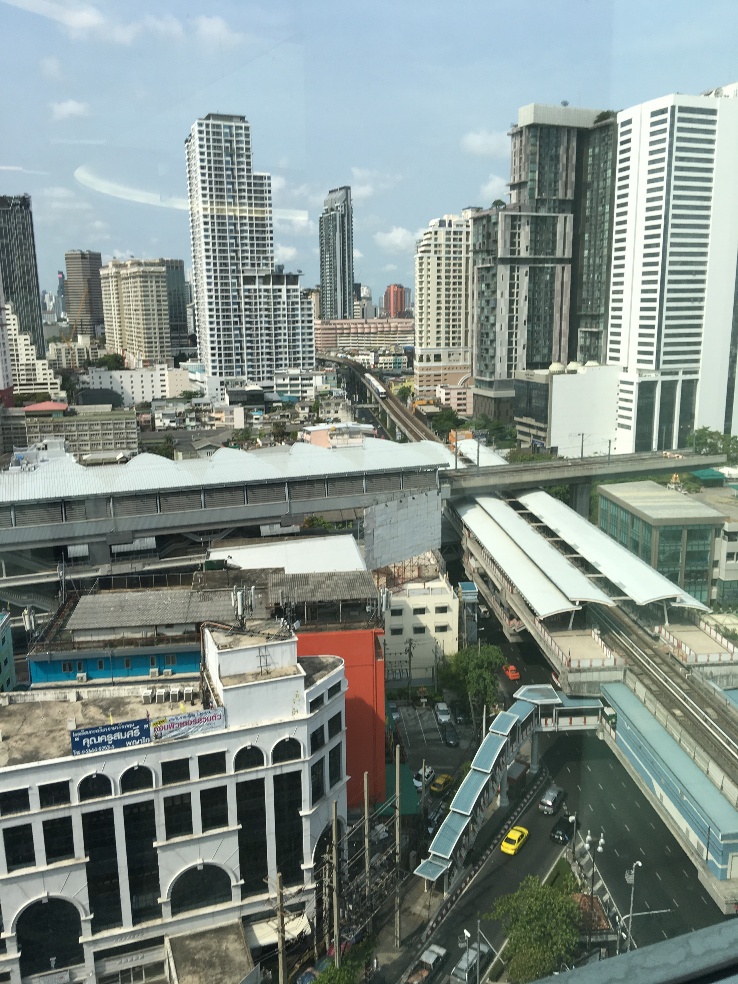 Phayathai BTS Station and ARL Station 8 May 2016